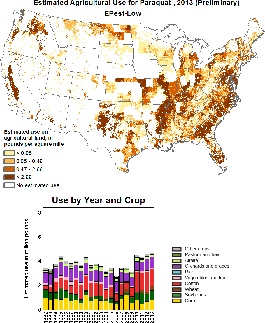 Paraquat map of use, USA, 2013 (estimated)